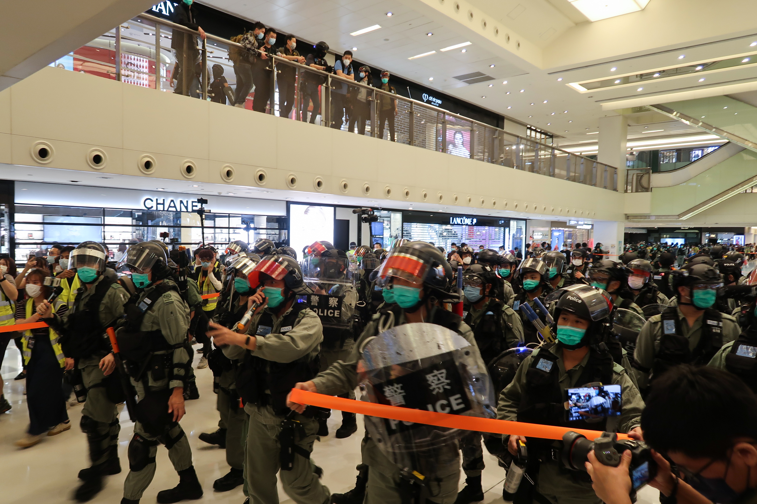 Riot police in New Town Plaza Footbridge Gallery